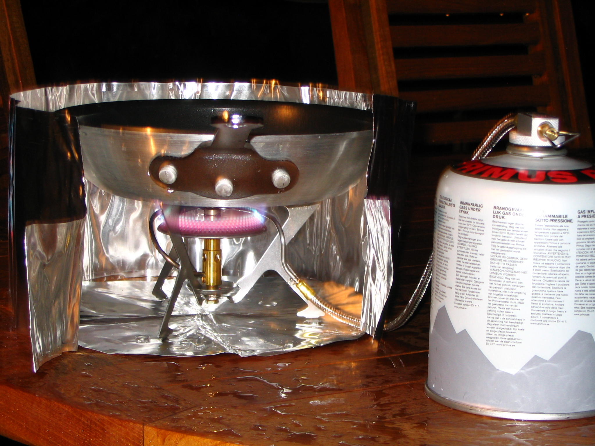 MSR WindPro portable stove with heat reflector (silver disc, bottom) and wind shield (silver wrap around). Powered by a Primus propane/isobutane canister.